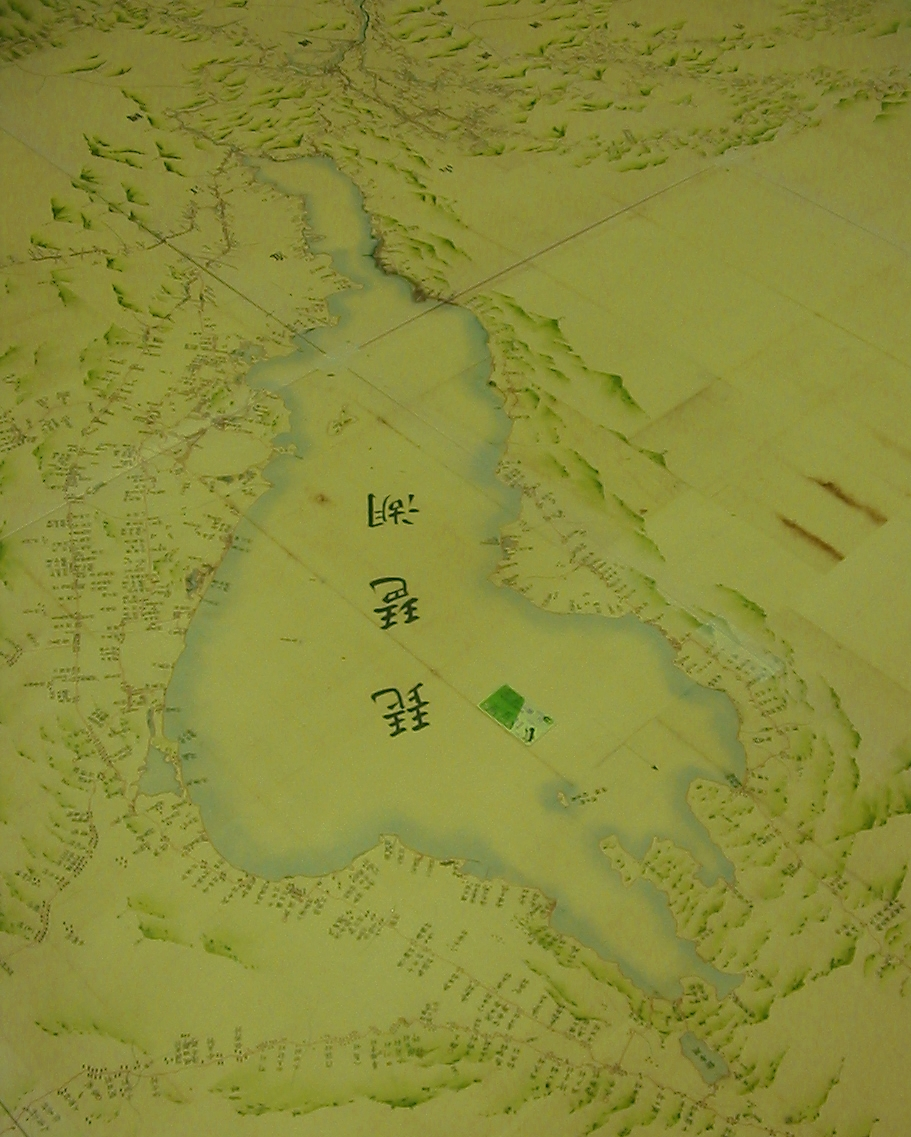 Dai Nihon Enkai Yochi Zenzu (大日本沿海輿地全図; maps of Japan's coastal area) (replica): Lake Biwa (琵琶湖) and surrounding areas.